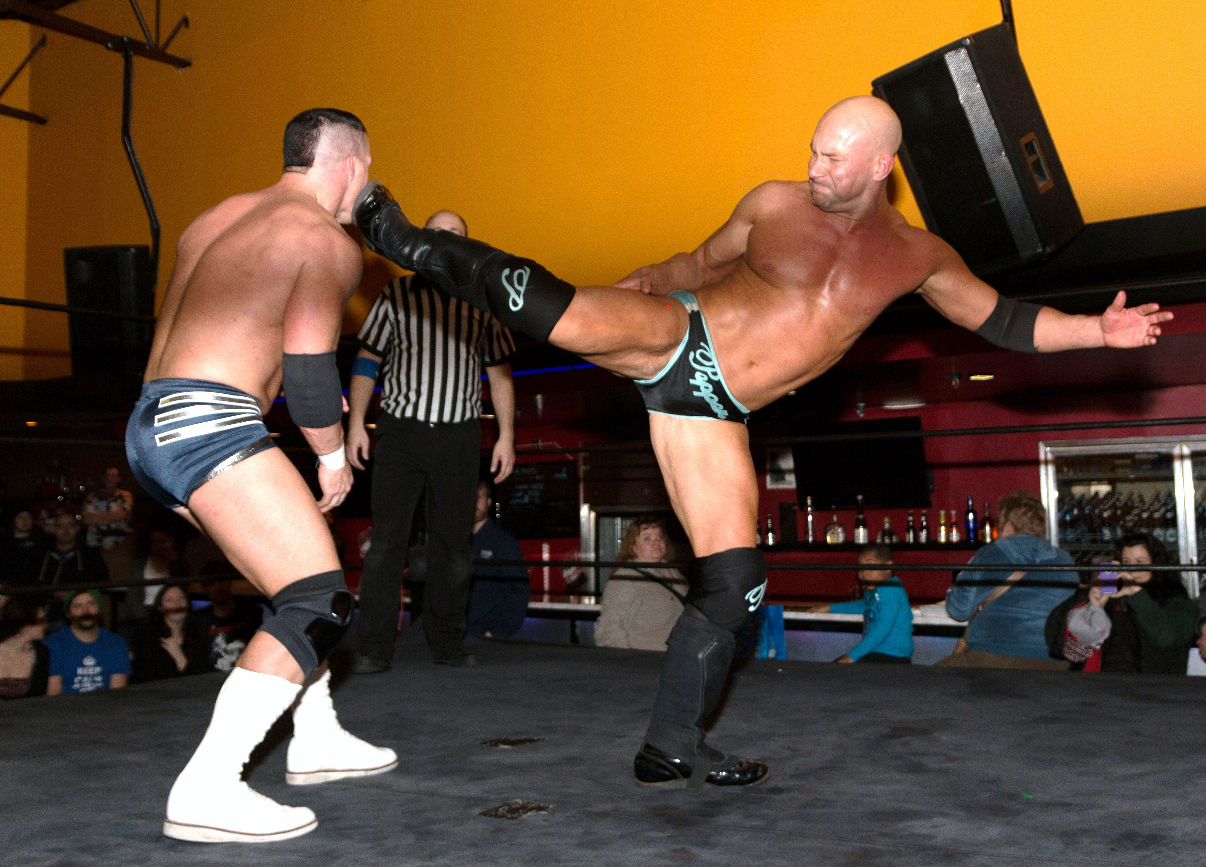 Wrestler Pepper Parks (right) hitting a superkick on Tyson Duxs